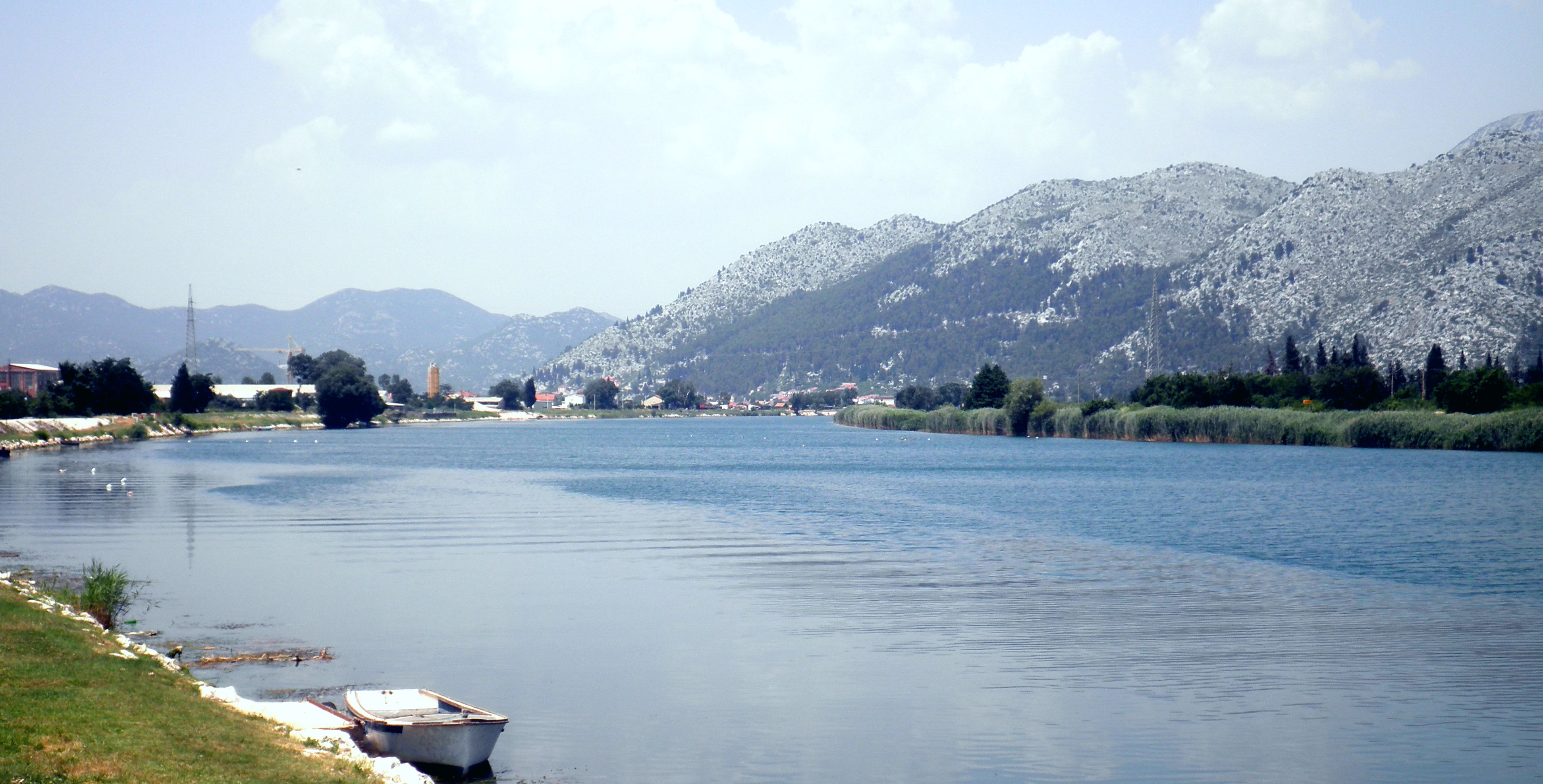 The Neretva river in Opuzen (a view to Komin